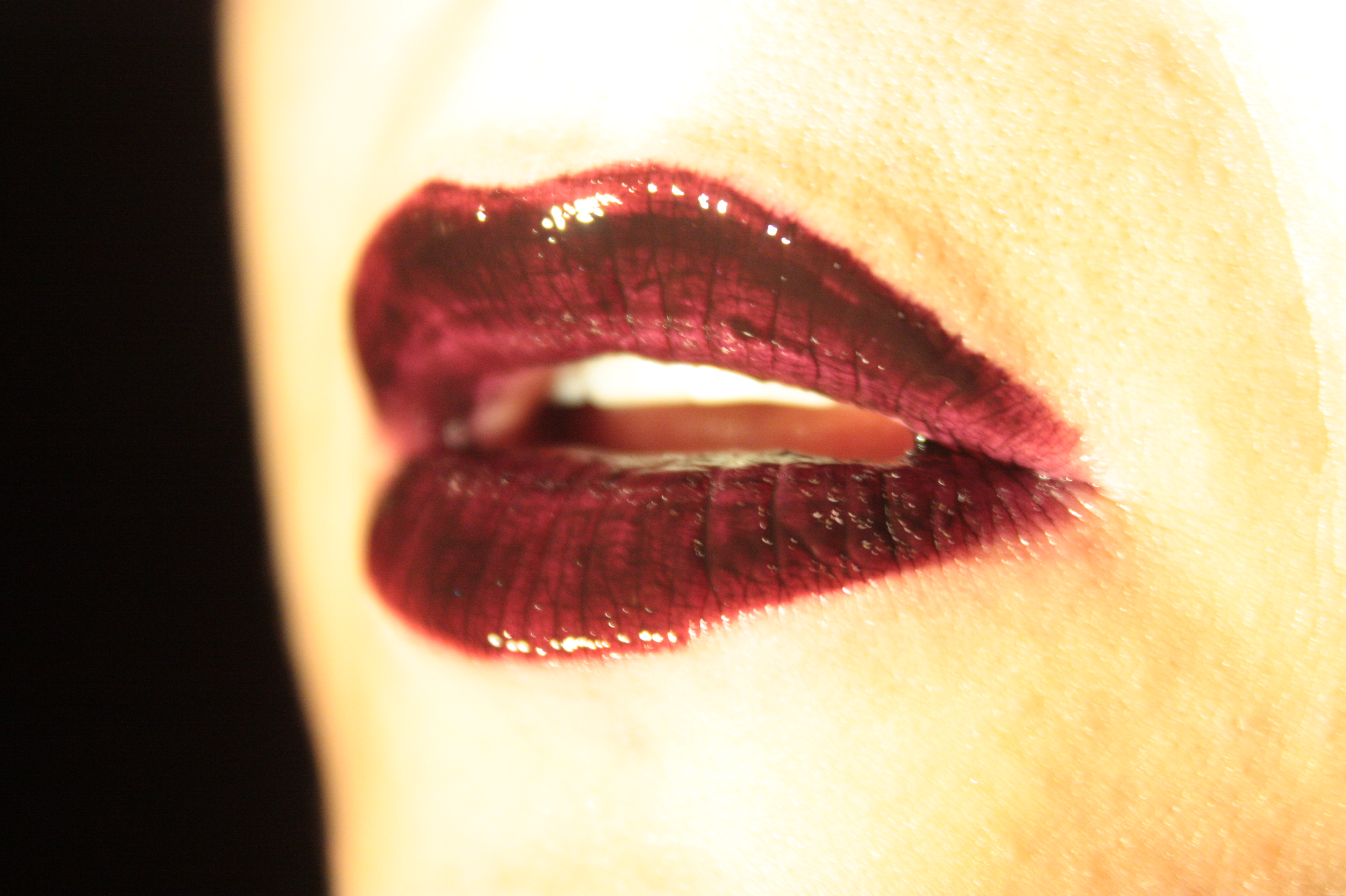 Magenta lipstick - model Eve Casini